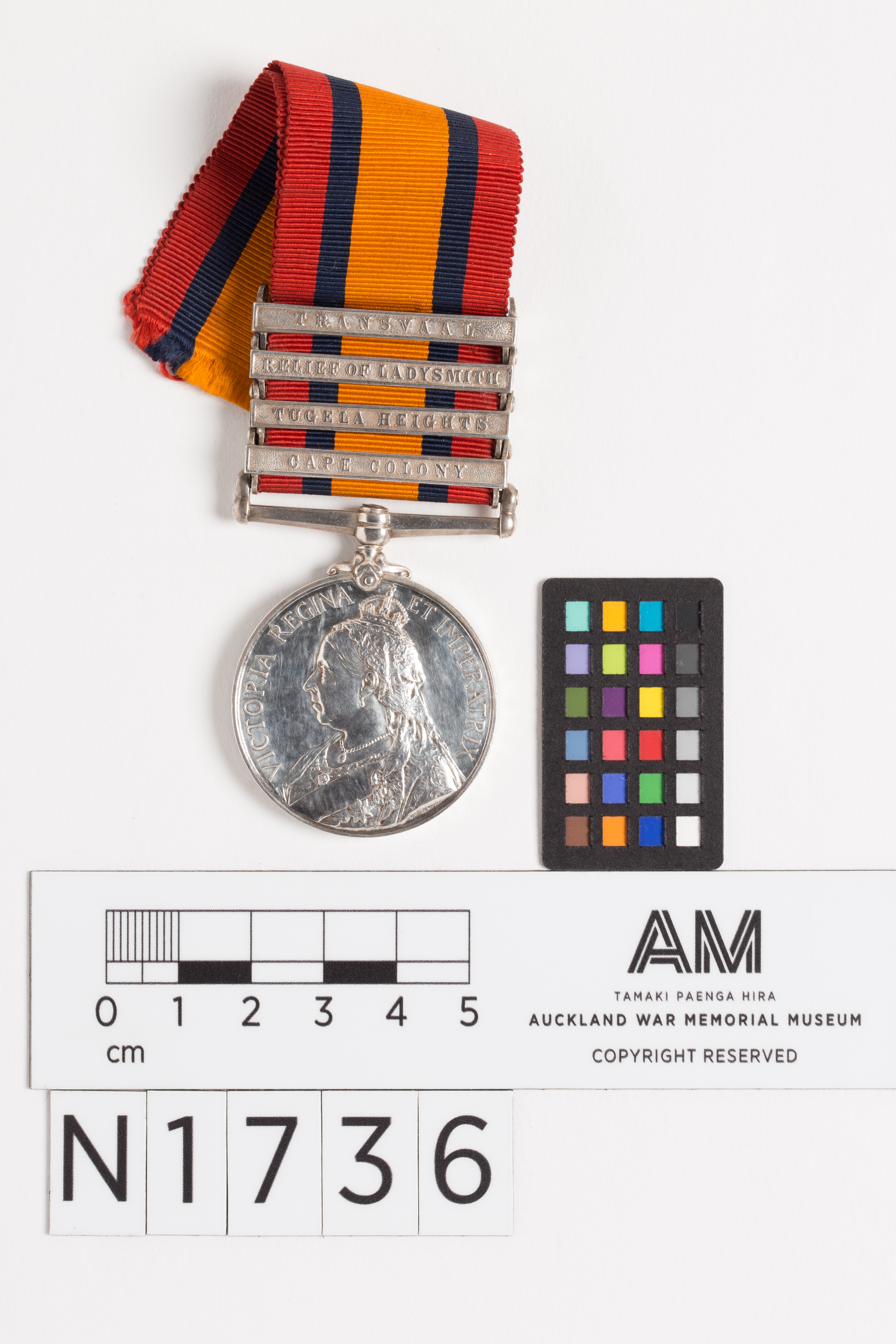 Queen's South Africa Medal 1899-1902 with four bars Medal awarded to 3622 Corpl D McLennan, 2 Royal Scots Fusiliers. Bars for Cape Colony, Tugela Heights, Relief of Ladysmith and Transvaal. silver medal; four bars; plain straight swivelling suspender; with ribbon obverse- crowned and veiled head of Queen Victoria and legend VICTORIA REGINA ET IMPERATRIX reverse- Britannia with a flag in her left hand and holding out a laurel wreath in her right towards an advancing party of soldiers; in the background are two warships; below the wreath, in two lines- 1899-1900 in relief; around top- SOUTH AFRICA Four bars- CAPE COLONY - TUGELA HEIGHTS - RELIEF OF LADYSMITH - TRANSVAAL ribbon- red with two dark blue stripes and a broad orange central stripe named on edge- 3622 CORL. D. MC'LENNAN, 2- R. SCOTS FUS